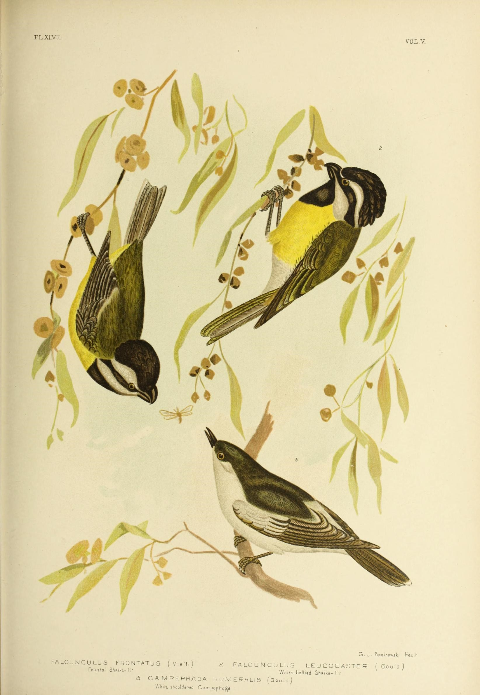 G.J. Bpoinowski l-ec^ FALCUNCULUS FRONTATUS (vi.ill) « FALCUNCULUS LEUCOGASTER (Gould) 5 CAMPEPHAGA HUMERALIS (Ooo.ldJ